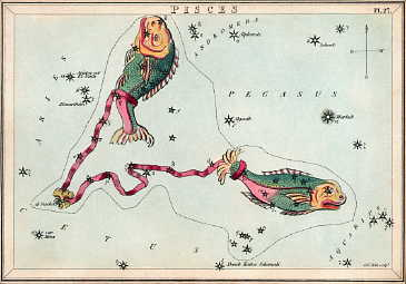 Pisces as depicted in Urania’s Mirror, a set of constellation cards published in London c. 1825.